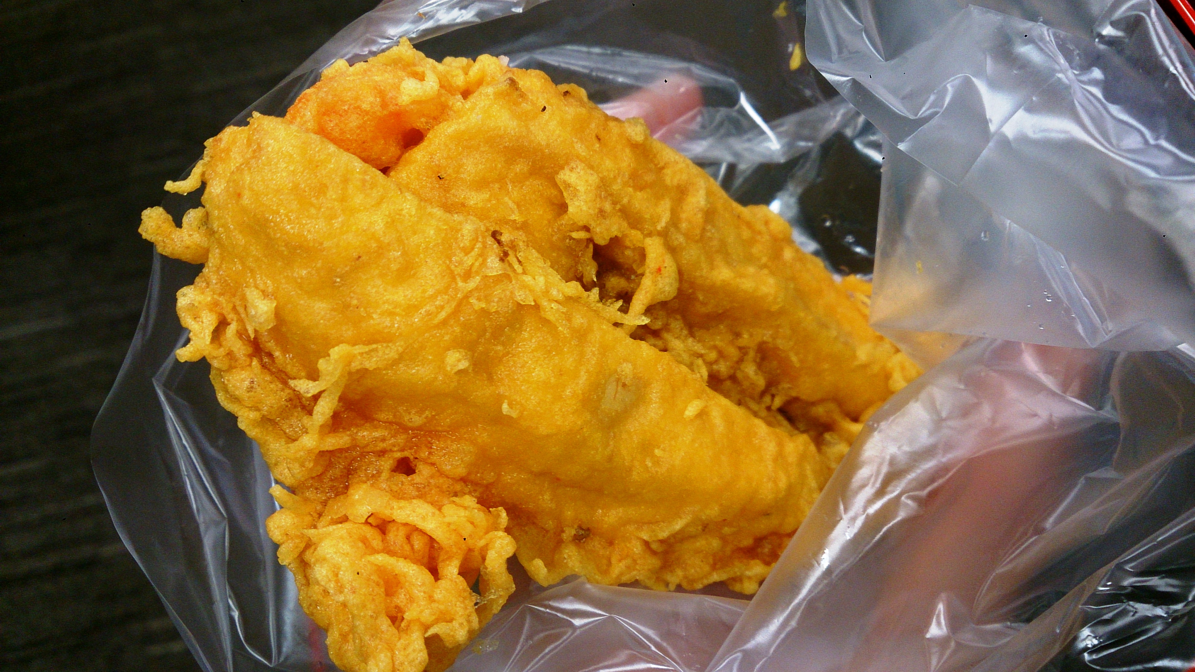 Fried banana fritters. Also known as "goring pisang" in the Malay language. ("pisang" means banana. "goring" means fried.)